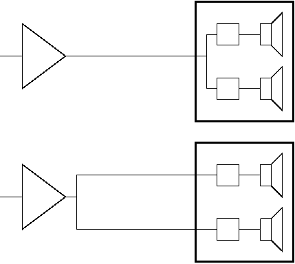 Bi-wiring of loudspeakers